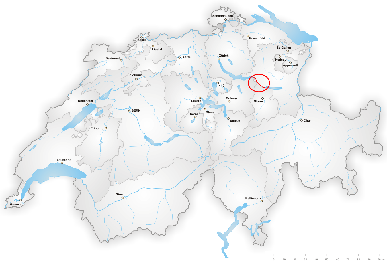 Country-side map of the Linth river paths correction .